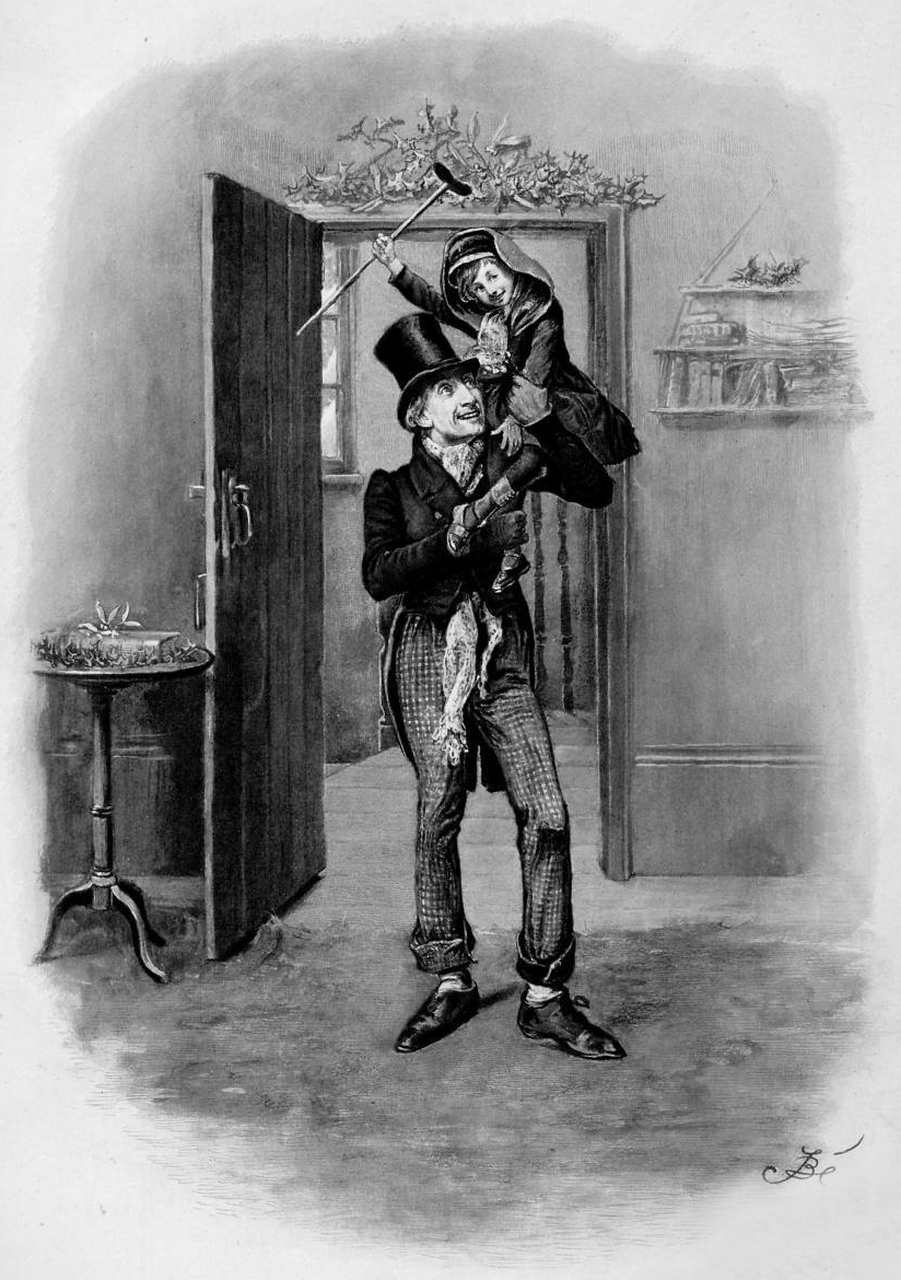 Reproduced from a c.1870s photographer frontispiece to Charles Dicken's A Christmas Carol